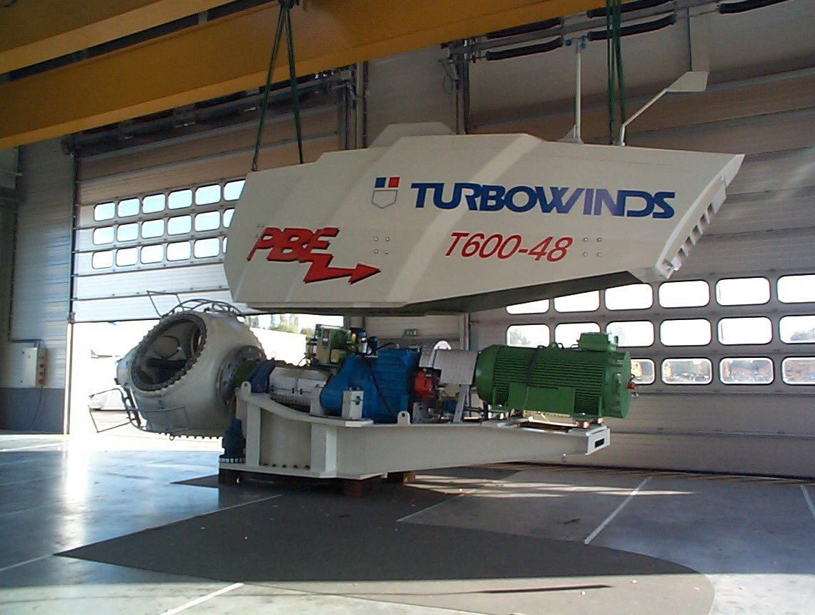 TURBOWINDS windturbine mount chain